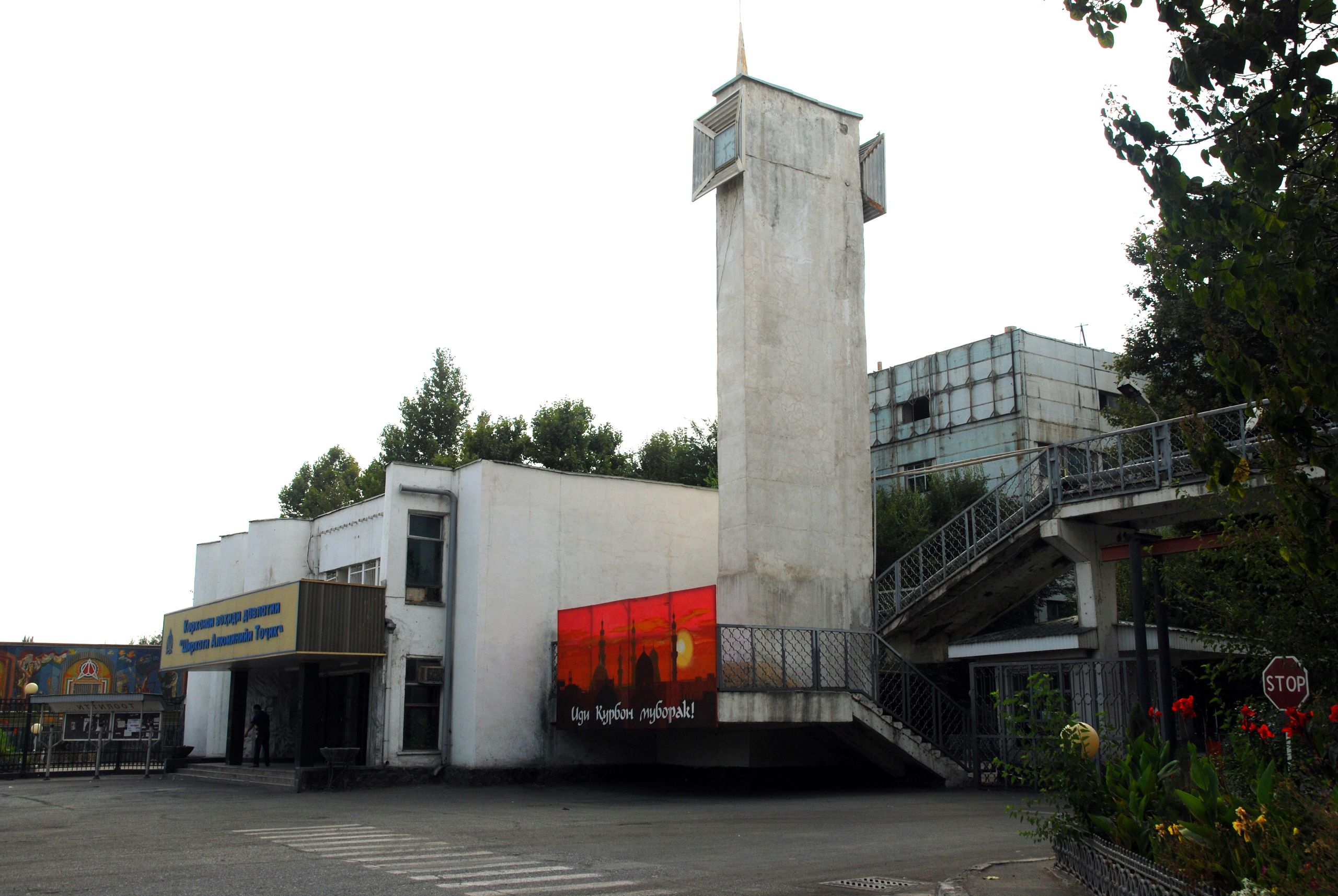 Tursunzoda, Talco